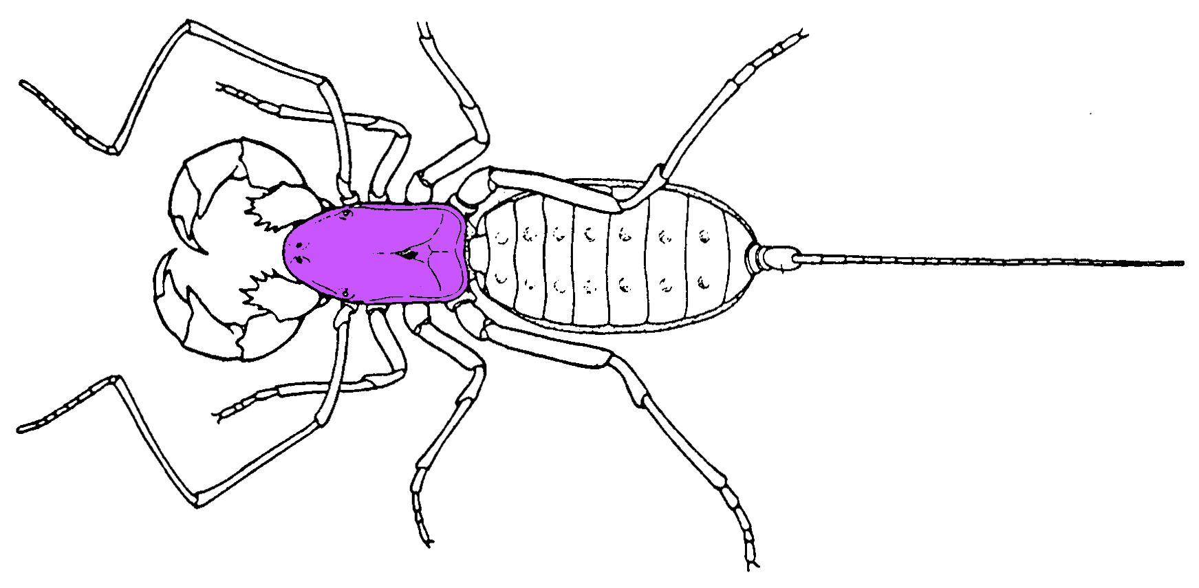 Rotated version of File:Carapace in purple.jpg